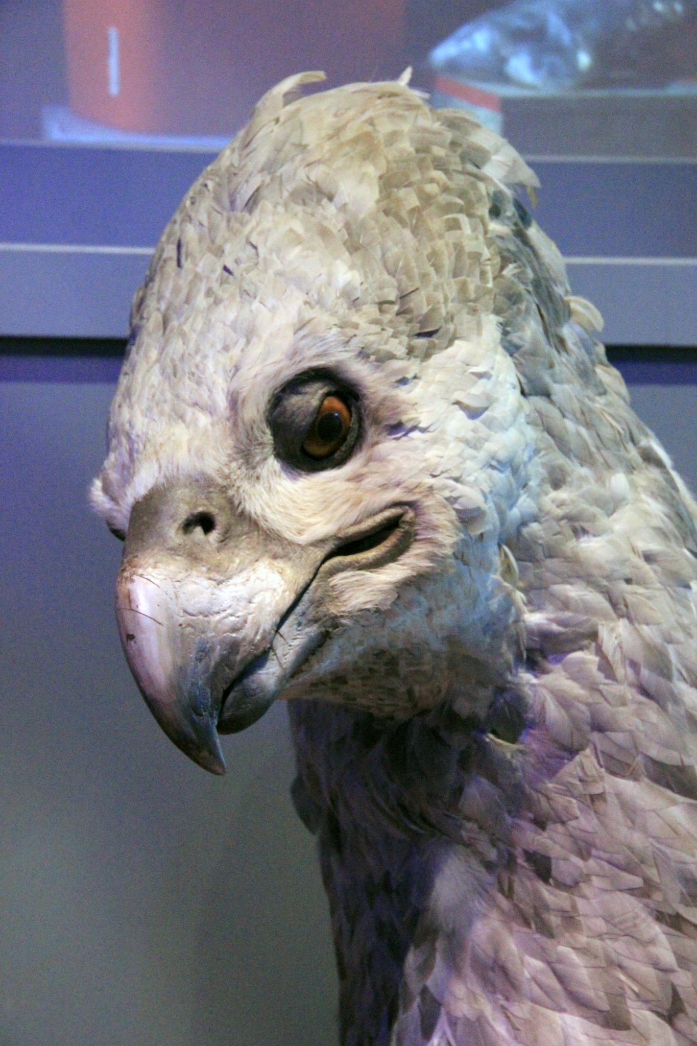 Warner Bros. Studio Tour London: The Making of Harry Potter.